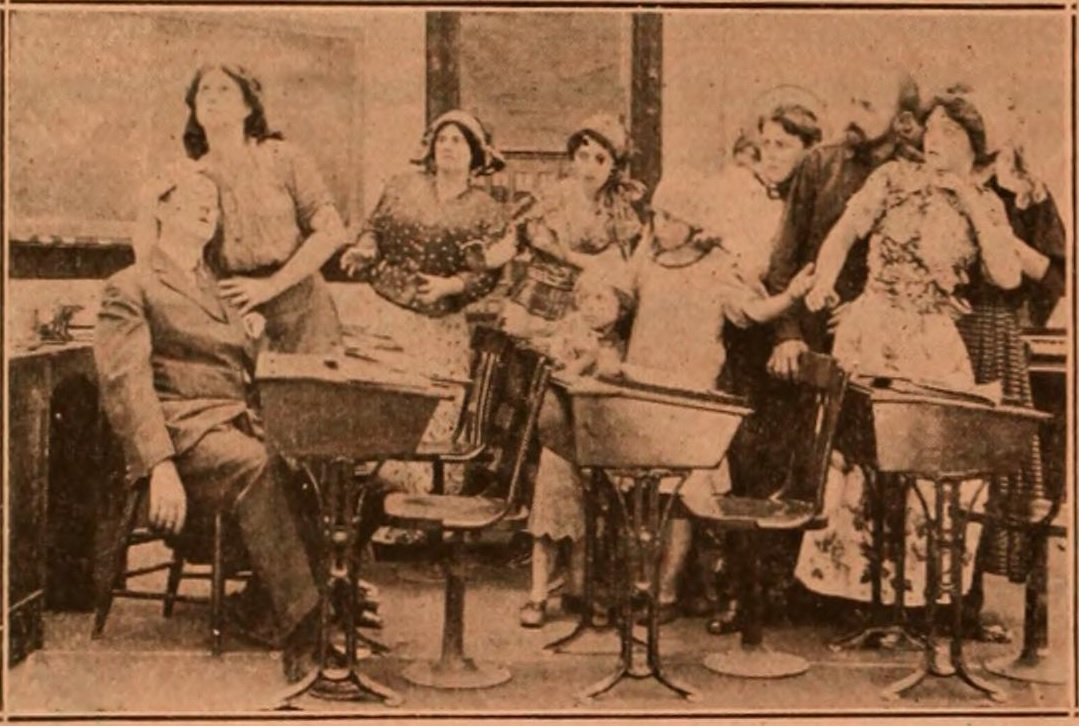 A film still from The Girls of the Ghetto by the Thanhouser Company